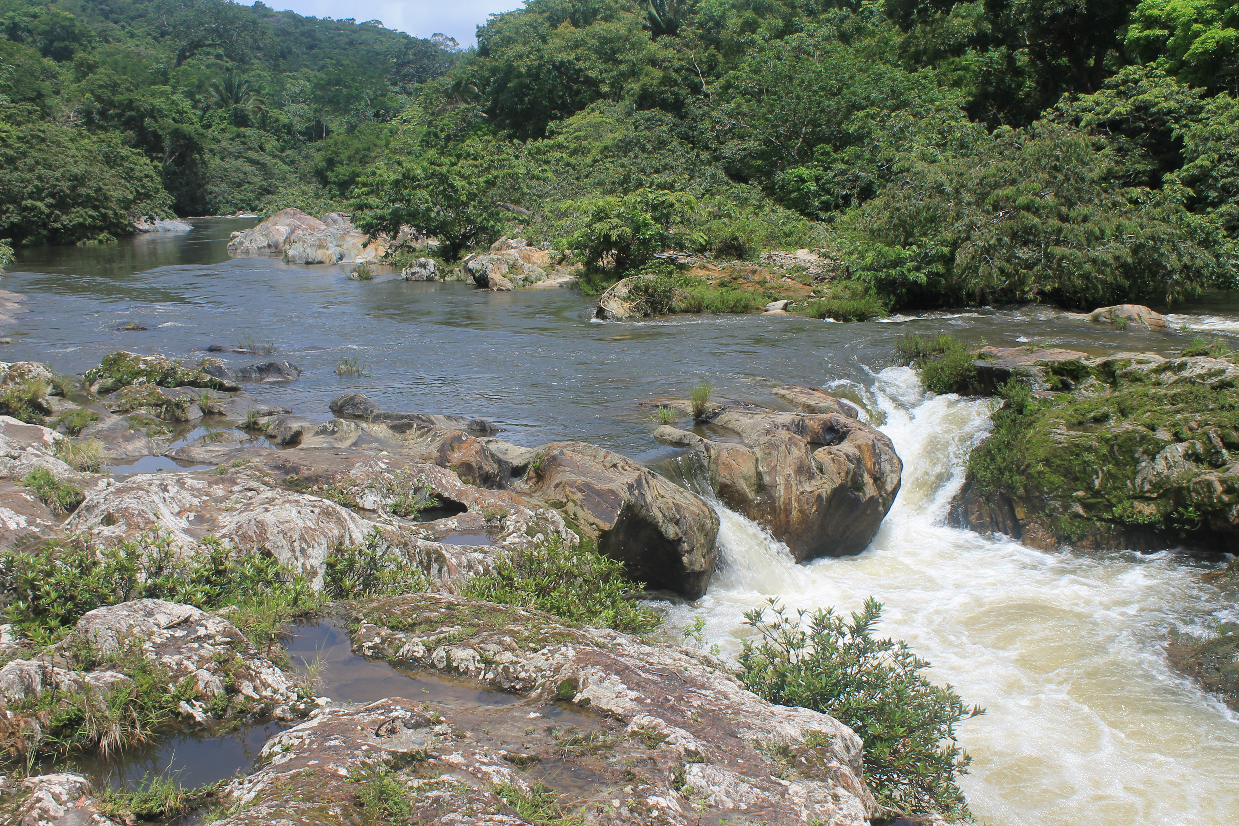 The San Pablo Waterfall